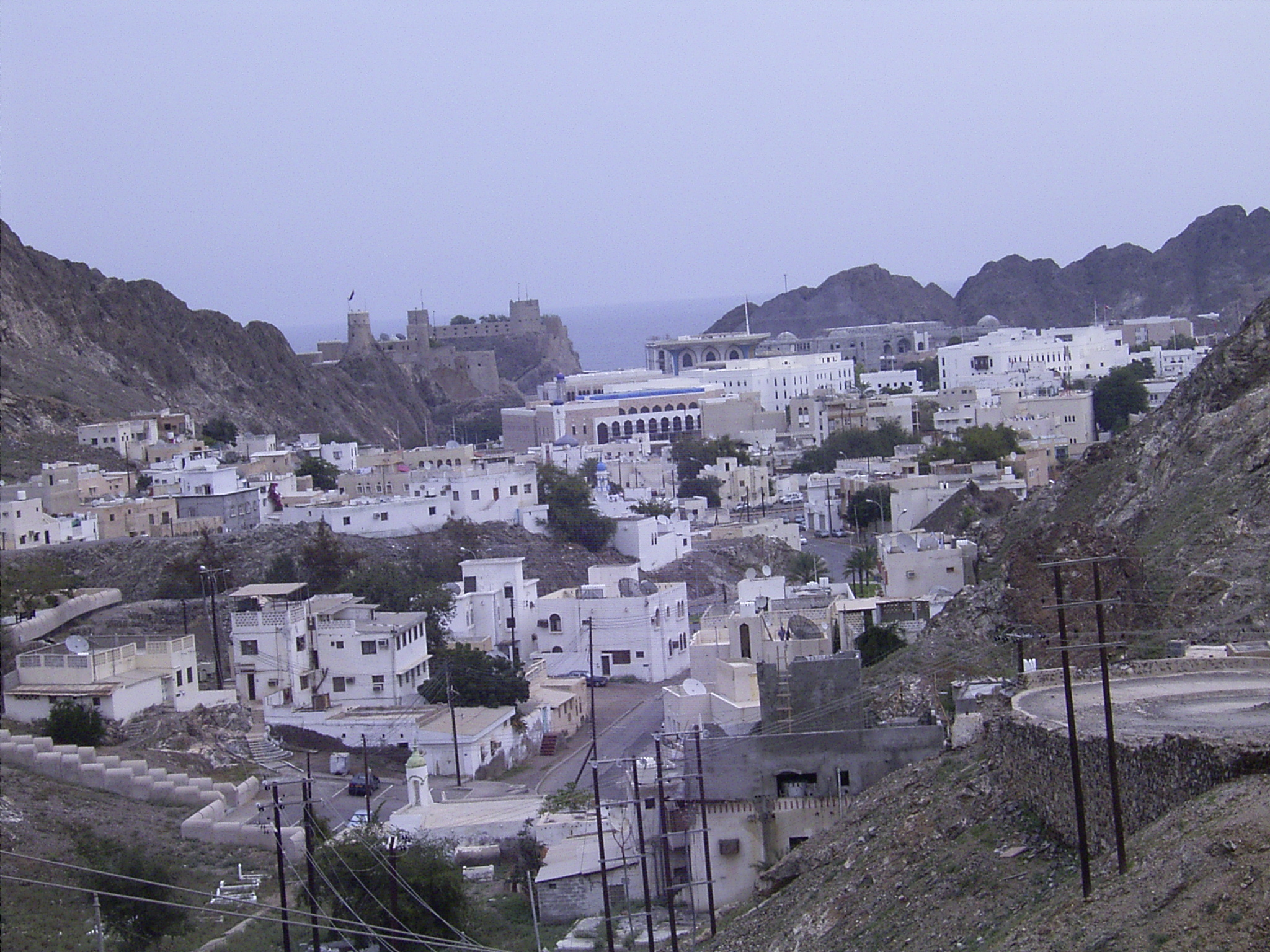 Old Muscat